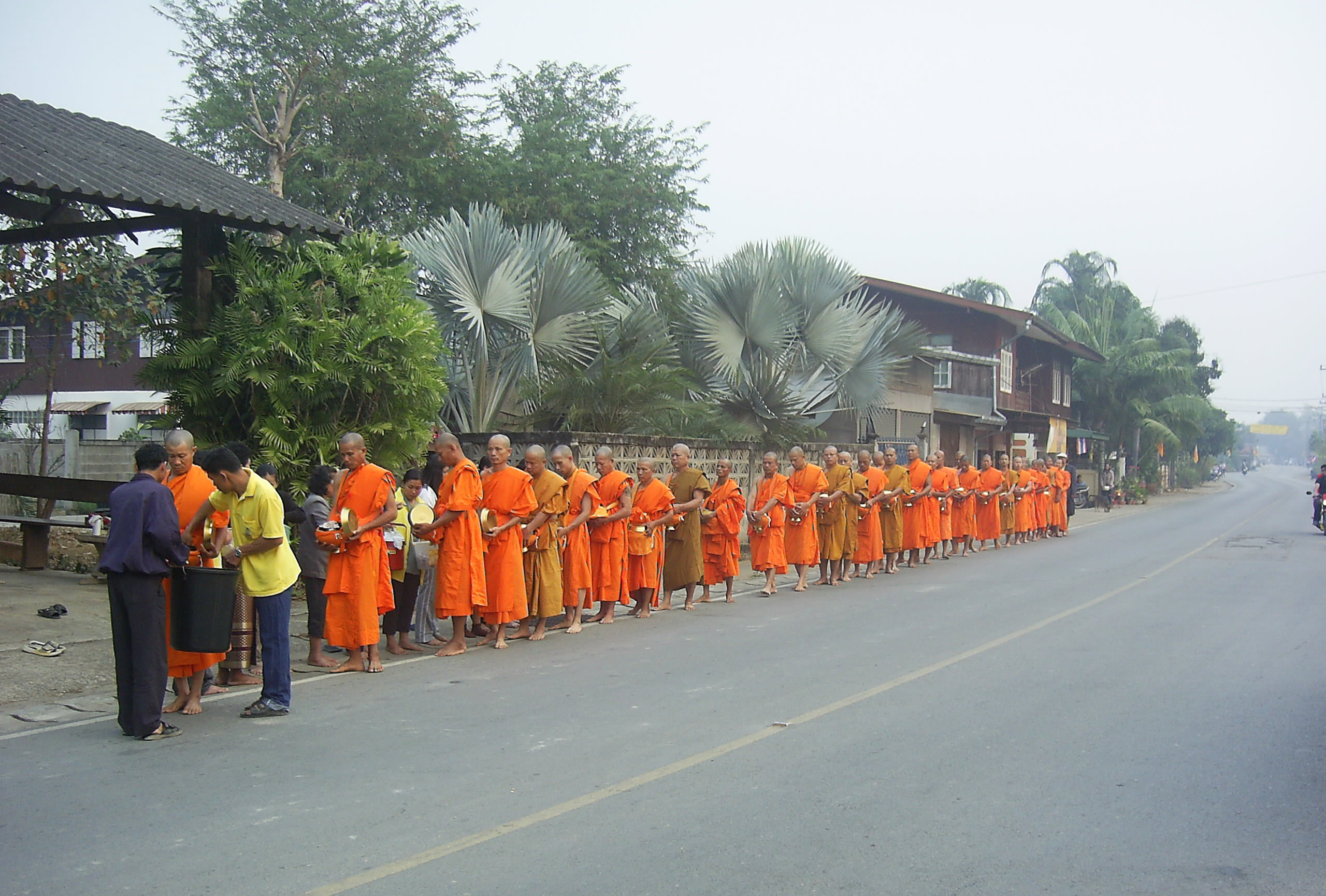 Thailand, Phrae, 1998. Own work